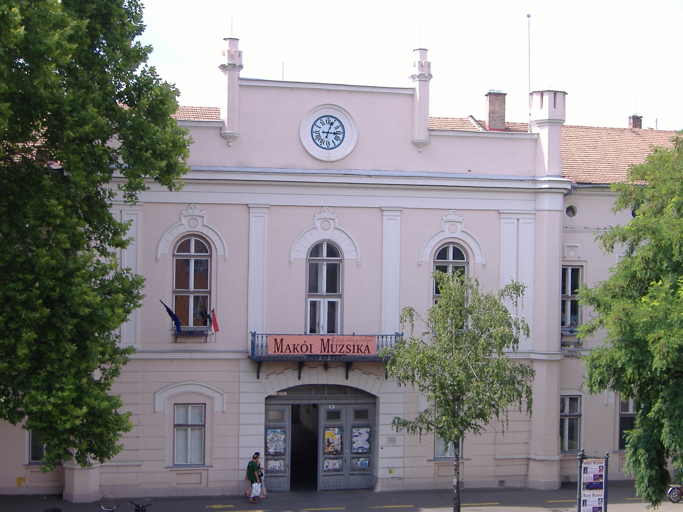 The Old Town Hall with the advertisement of the local musical festival on its balcony in Makó, Hungary.